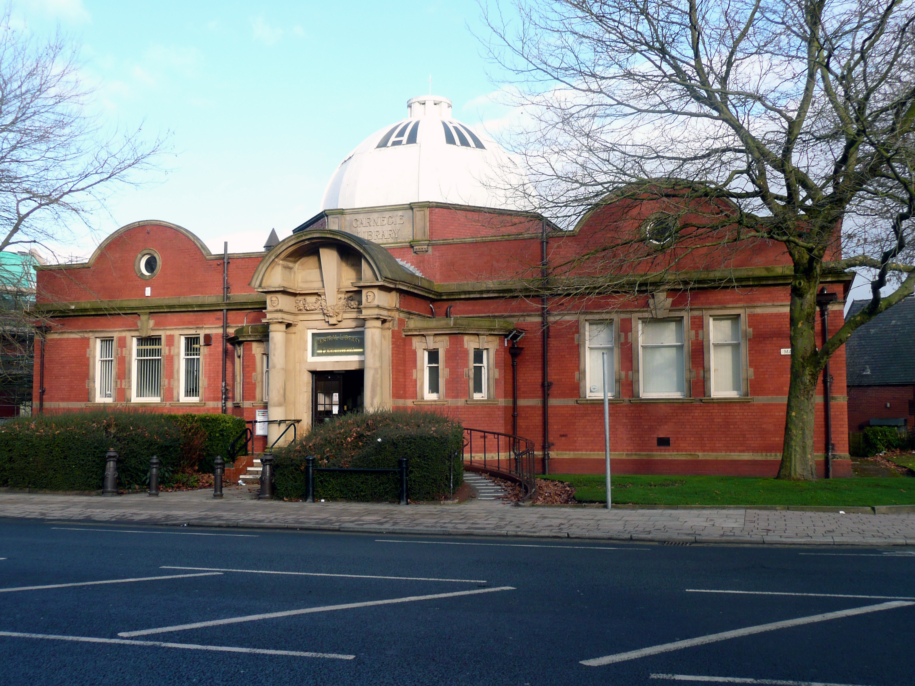 Farnworth Library, Farnworth, Greater Manchester, England.